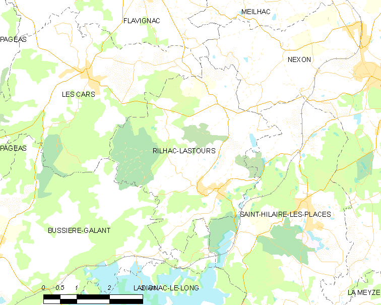 Map of French municipality Rilhac-Lastours